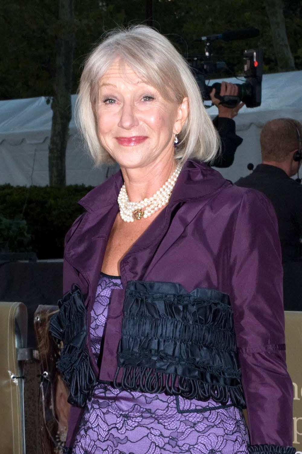 Helen Mirren at the Metropolitan Opera opening in 2008. © Rubenstein, photographer Martyna Borkowski